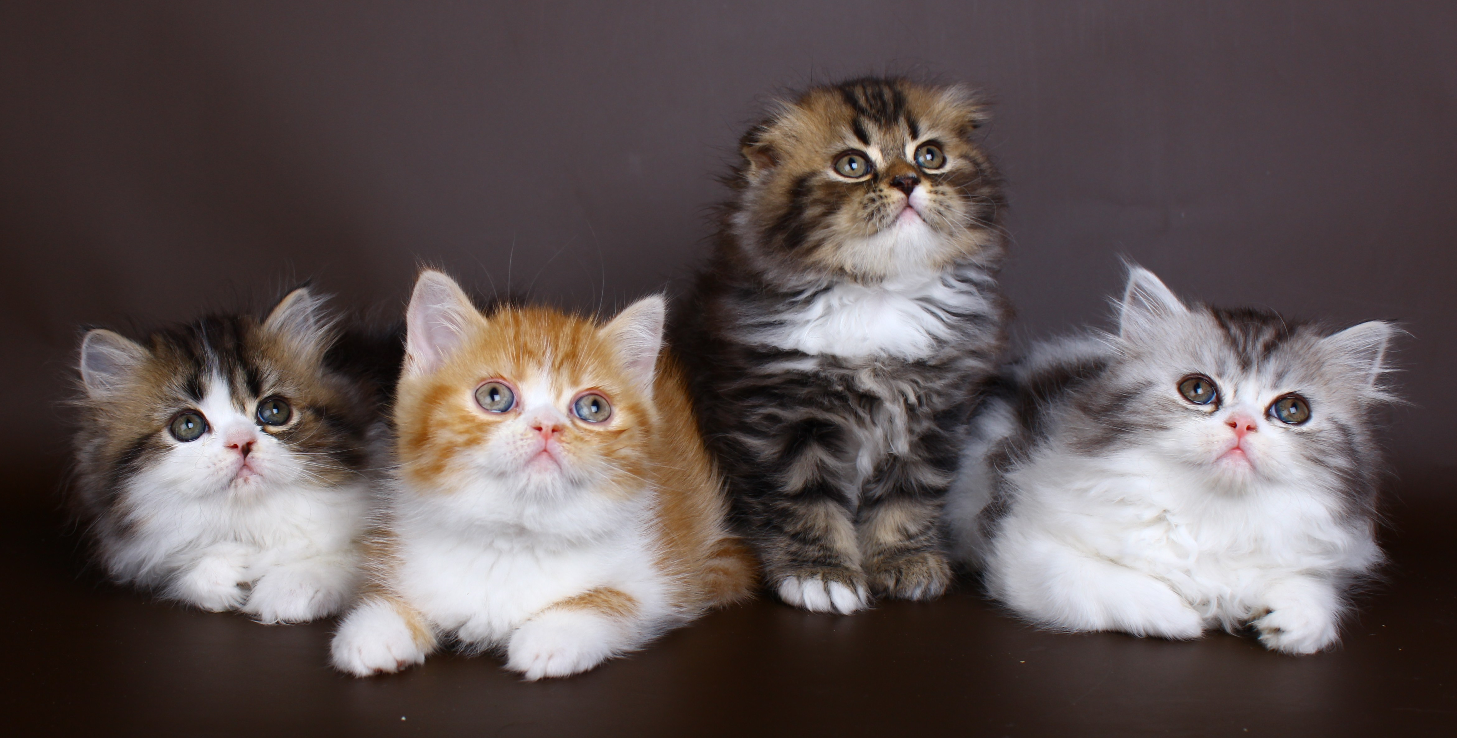 Scottish Kitten